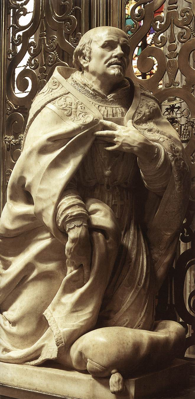 Statue of archbishop Cruesen by Lucas Faydherbe, Sint-Romboutskathedraal, Mechelen, Belgium